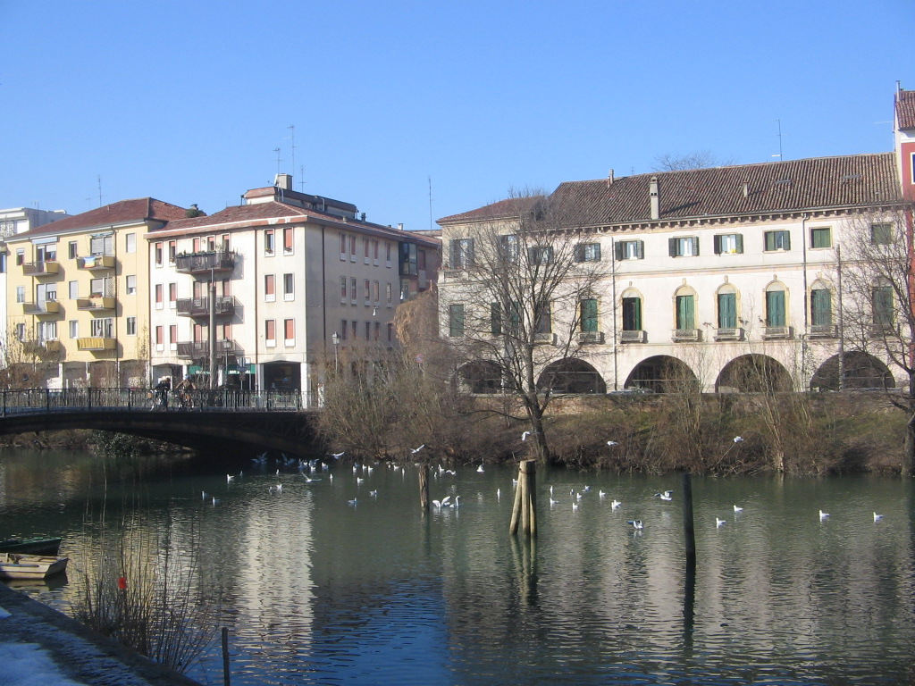 Vista della riviera San Benedetto, Padova - Italia, la città è ricca di vie d'acqua. A view of the riviera San Benedetto, Padua - Italy, the city has a lot of river. Made by Piero tasso the 22 of January, 2006